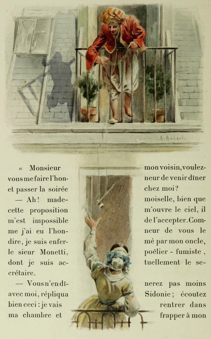 Illustration of Henry Murger's Scènes de la vie de bohème: Paris L. Cartheret éditeur, 1913